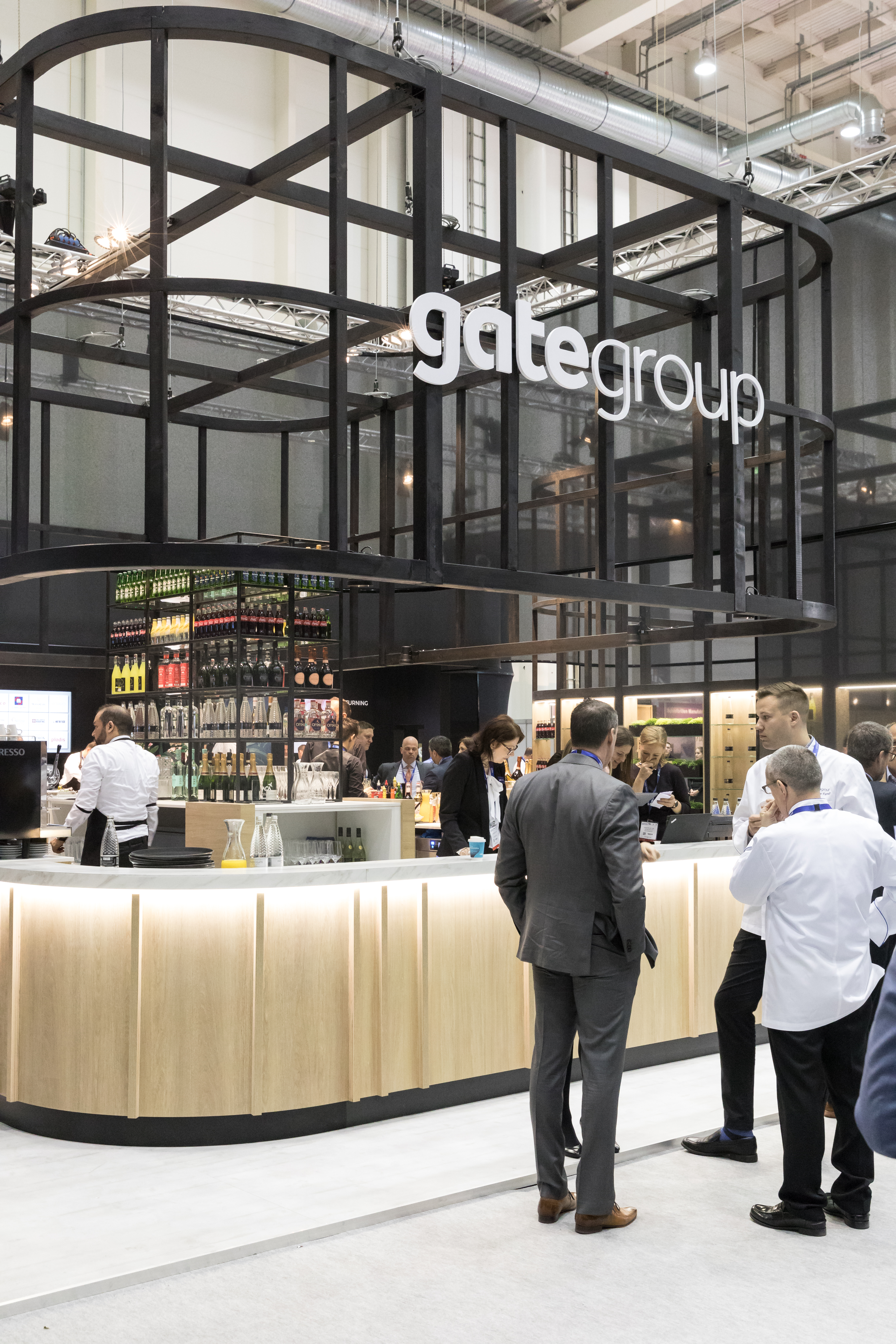 Passenger Experience Week Hamburg 2018